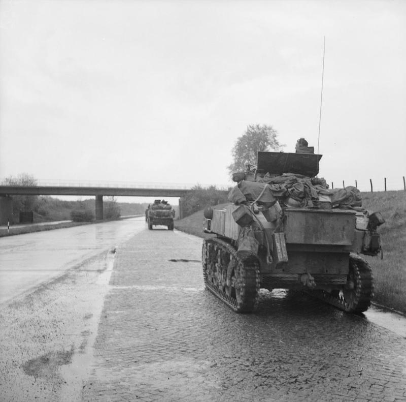 Stuart tanks of 3rd Royal Tank Regiment, 11th Armoured Division, drive along an autobahn towards Lubeck, 2 May 1945. Stuart tanks of 3rd Royal Tank Regiment, 11th Armoured Division, drive along an autobahn towards Lubeck, 2 May 1945.